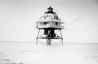 Downloaded from [1] - U.S. Coast Guard - Caption: "7th Dist. Photos [;] Northwest Passage Lt. Sta. [;] 689 - Northwest Passage, Florida [;] 7th Dist. Photogr. [illegible] with 8th Engr's letter of 1 July 1892 - filed 25 Jan. .00-"; Photo No. 689; photographer unknown.